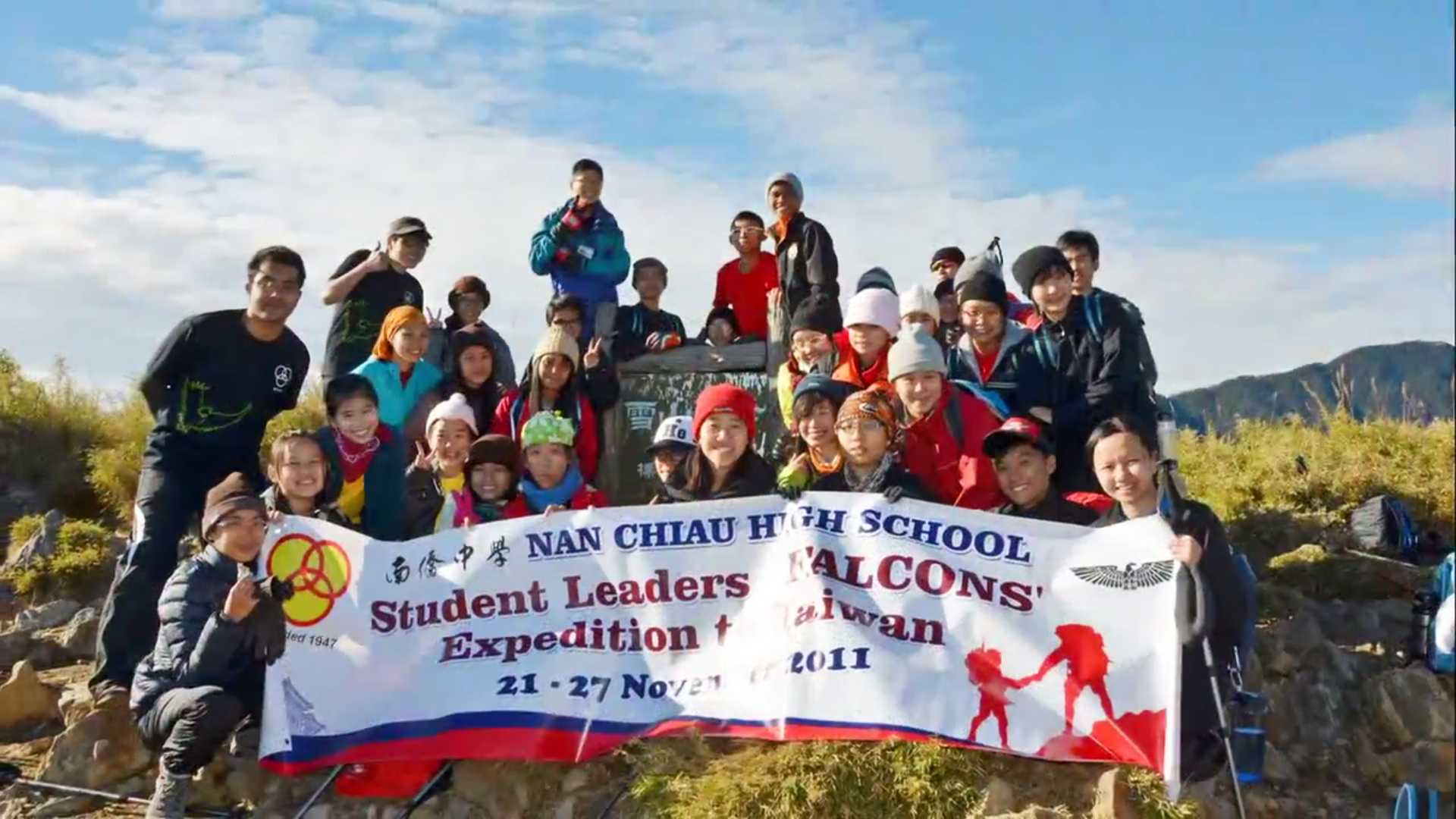 The 1st batch of Nan Chiau High School FALCONS (FALCONS I) attempting Xueshan in Taichung, Republic of China (Taiwan).